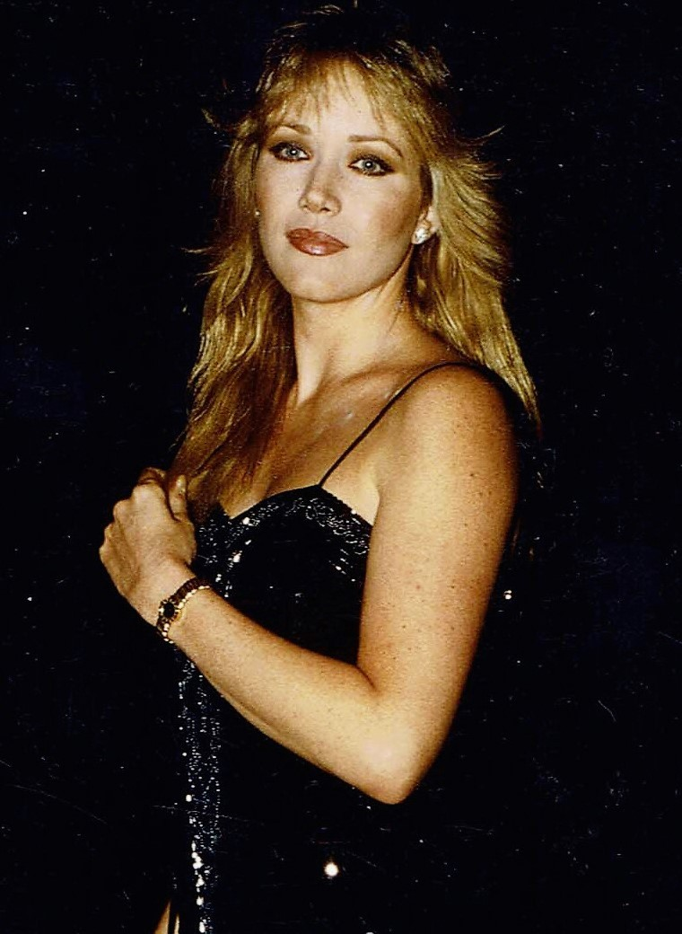 Publicity photo of Tanya Roberts ca. 1982 in promotion of Charlie's Angels